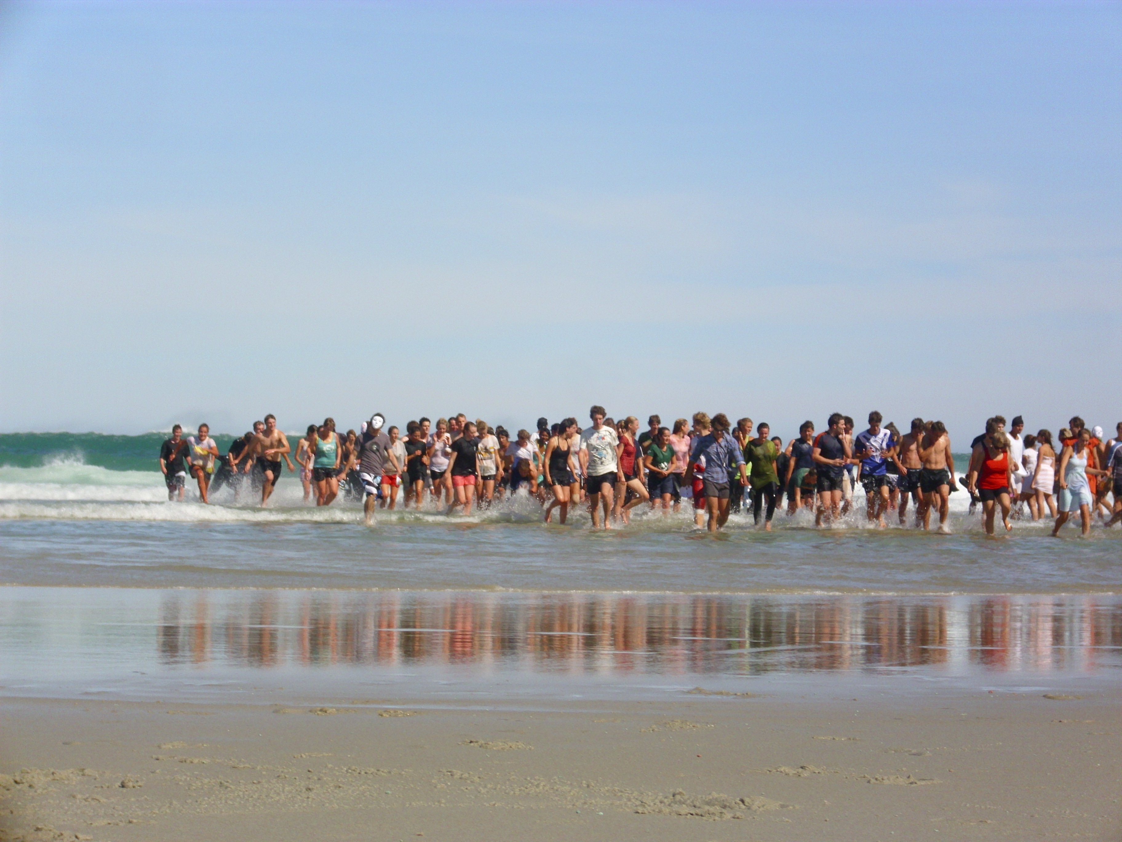 Knox College students at St Clair during O-Week in Dunedin, New Zealand.